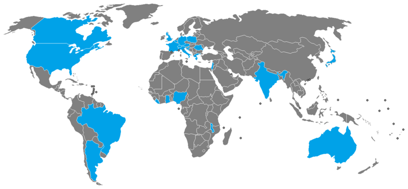 Countries where there are churches of Free Bible Researchers